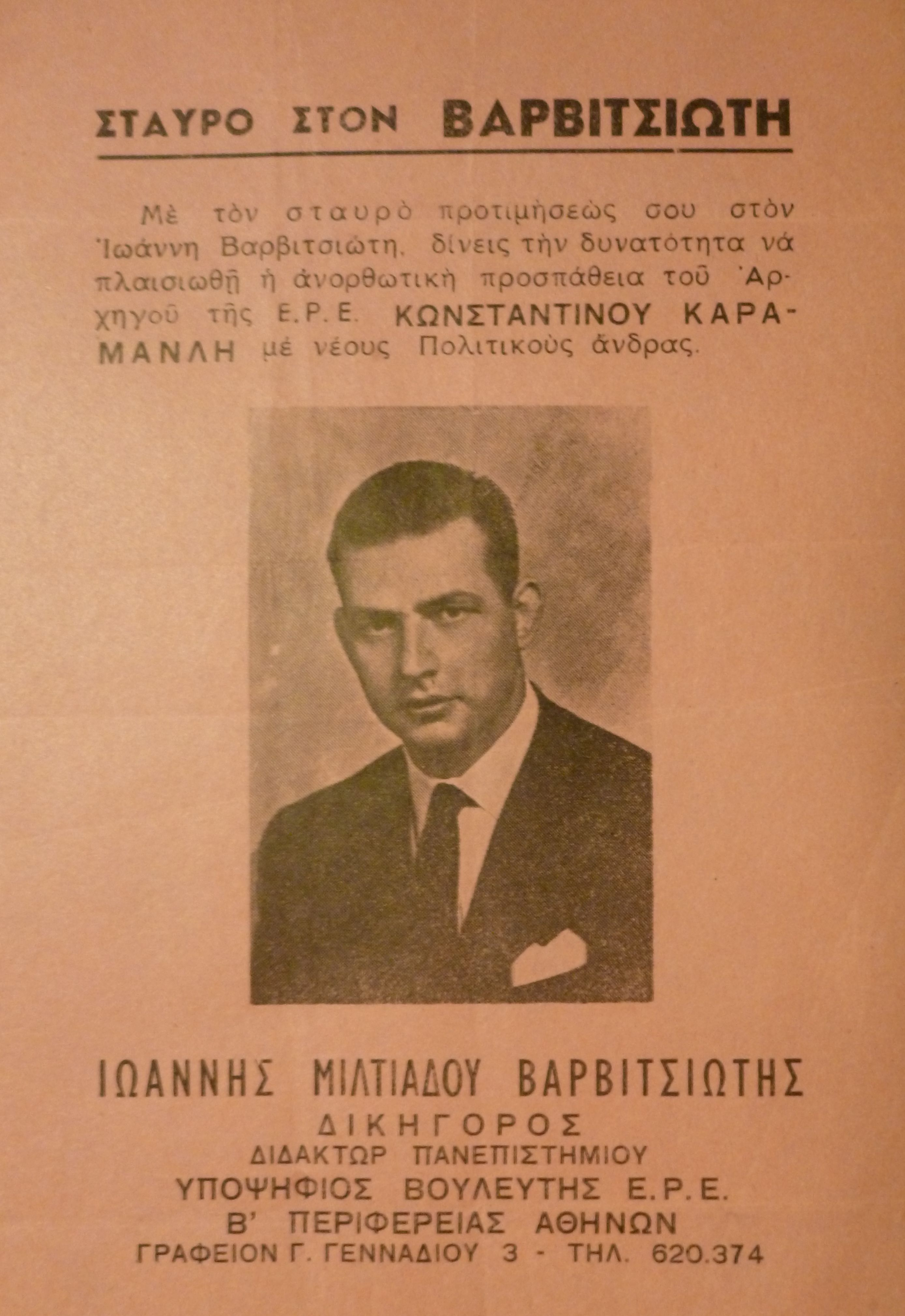 A pre-election advertisement for Ioannes Varvitsiotes, c. 1963. "Vote for Varvitsiotes"